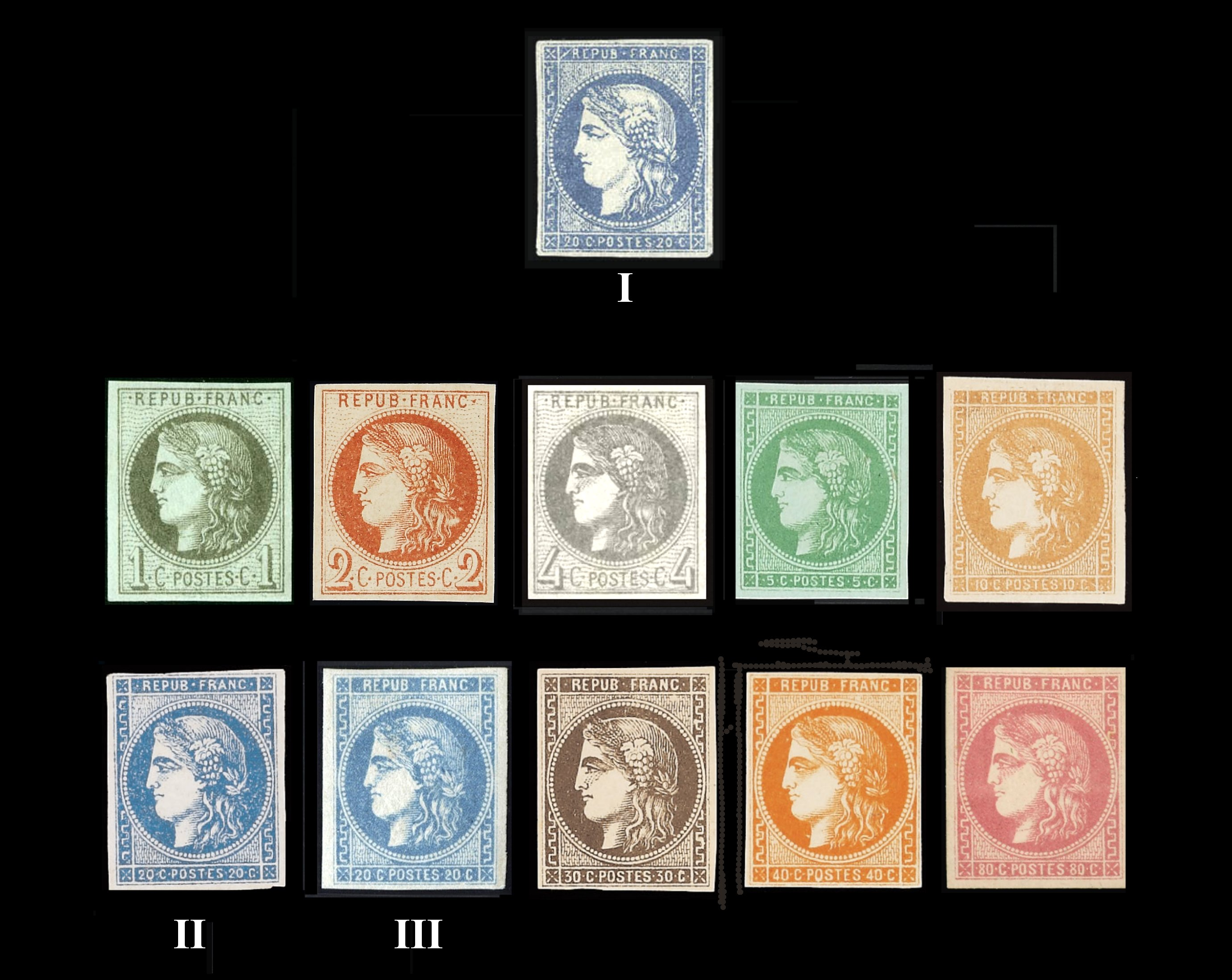 France - 1870/1871 France-Prussia war - Ceres stamps of Bordeaux